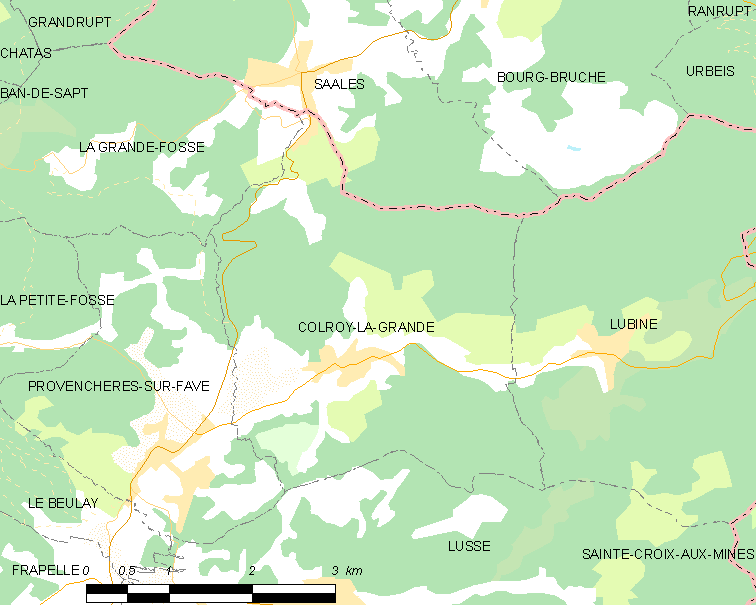 Map of French municipality Colroy-la-Grande